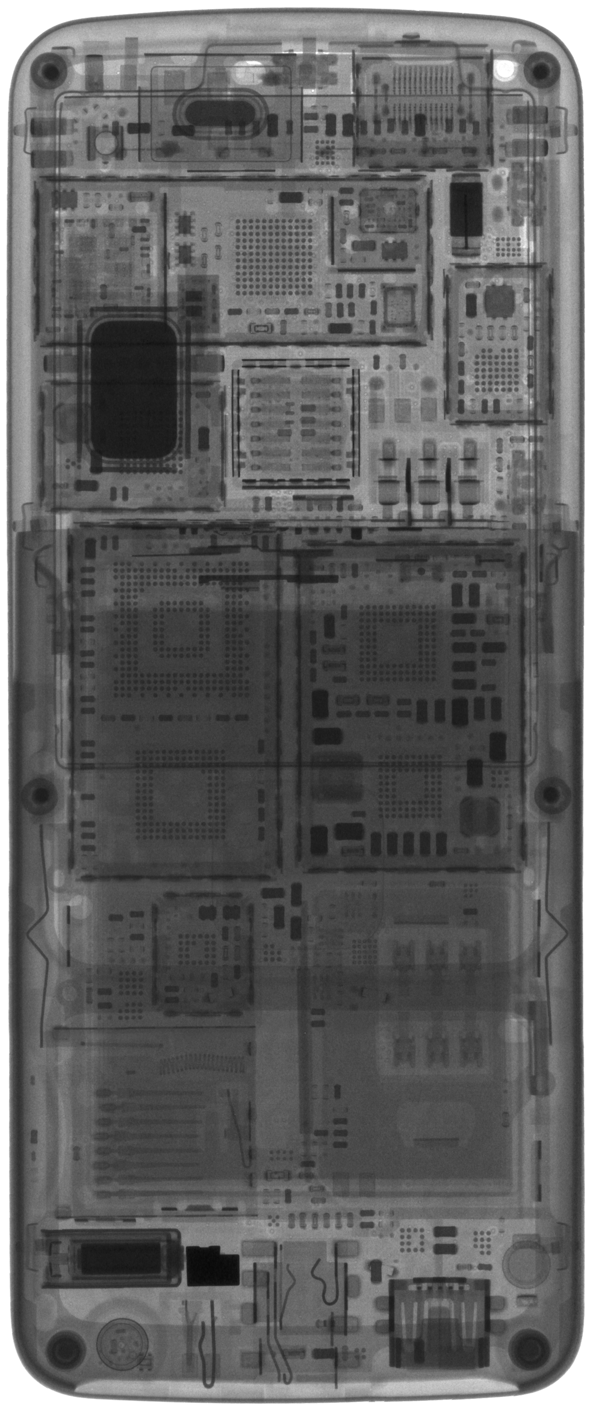 This is an x-ray image of a cellular phone with metal casing.